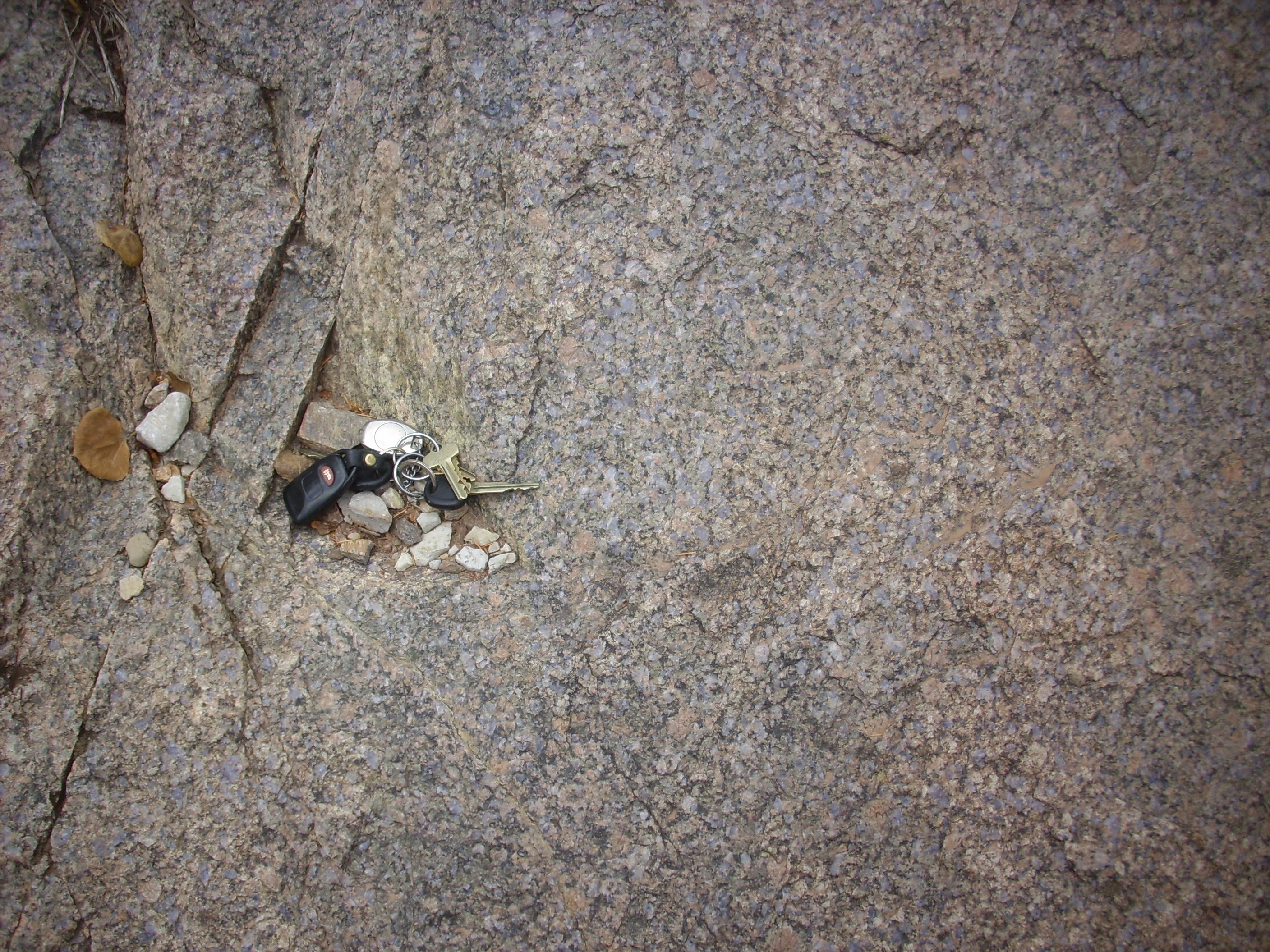 This image shows an outcrop of the San Pedro quartz monzonite, a Paleoproterozoic batholith in the northern Sierra Nacimiento Mountains (San Pedro Mountains), northern New Mexico, United States. The outcrop is notable for the presence of rapikivi granite.